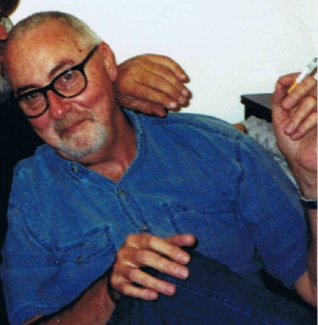 A photo of American poet Greg Hall in 2004.